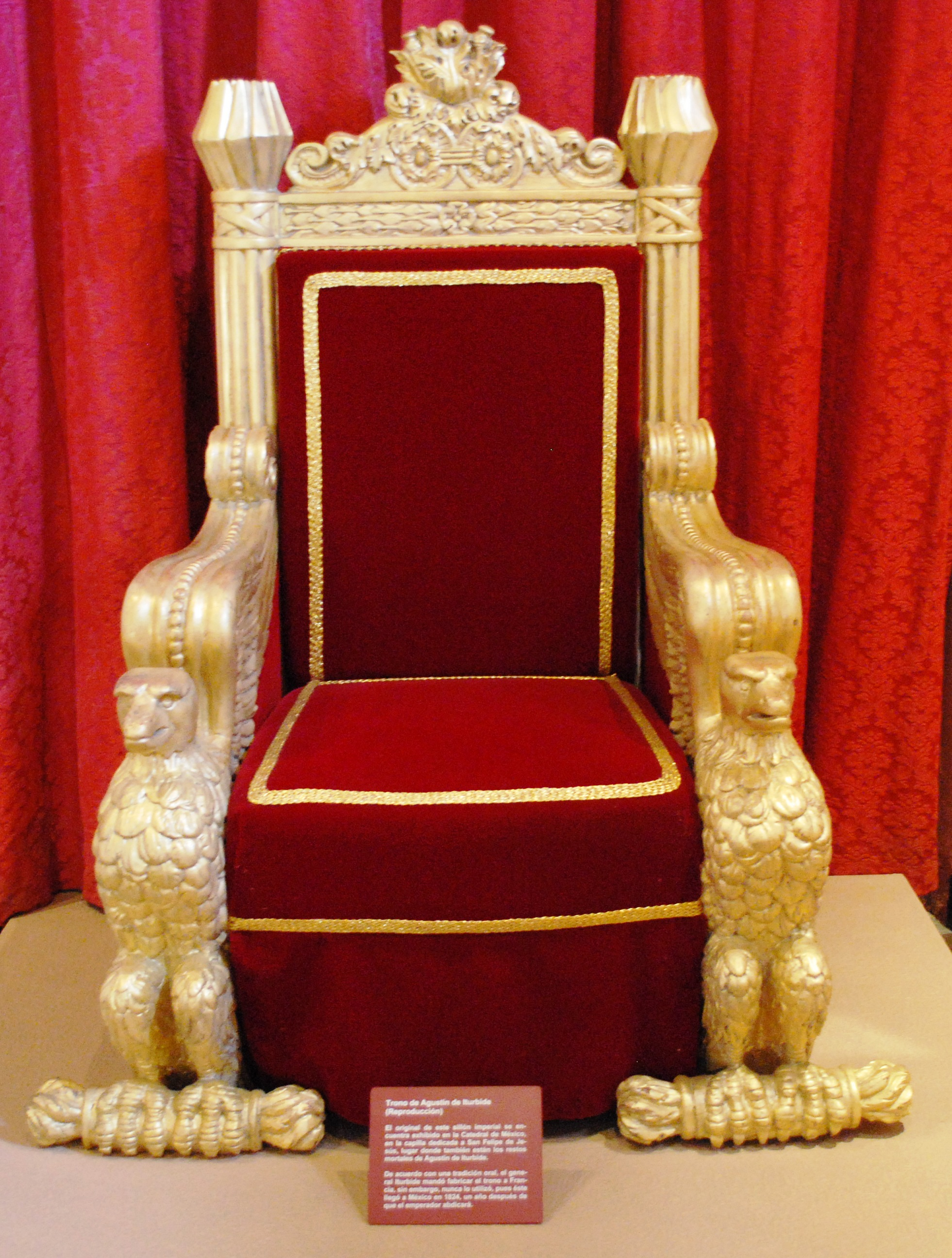 Reproduction of the throne of emperor Agustin Iturbide on display at the Museo Nacional de las Intervenciones (ex Monastery of Churubusco) in Coyoacan borough, Mexico City